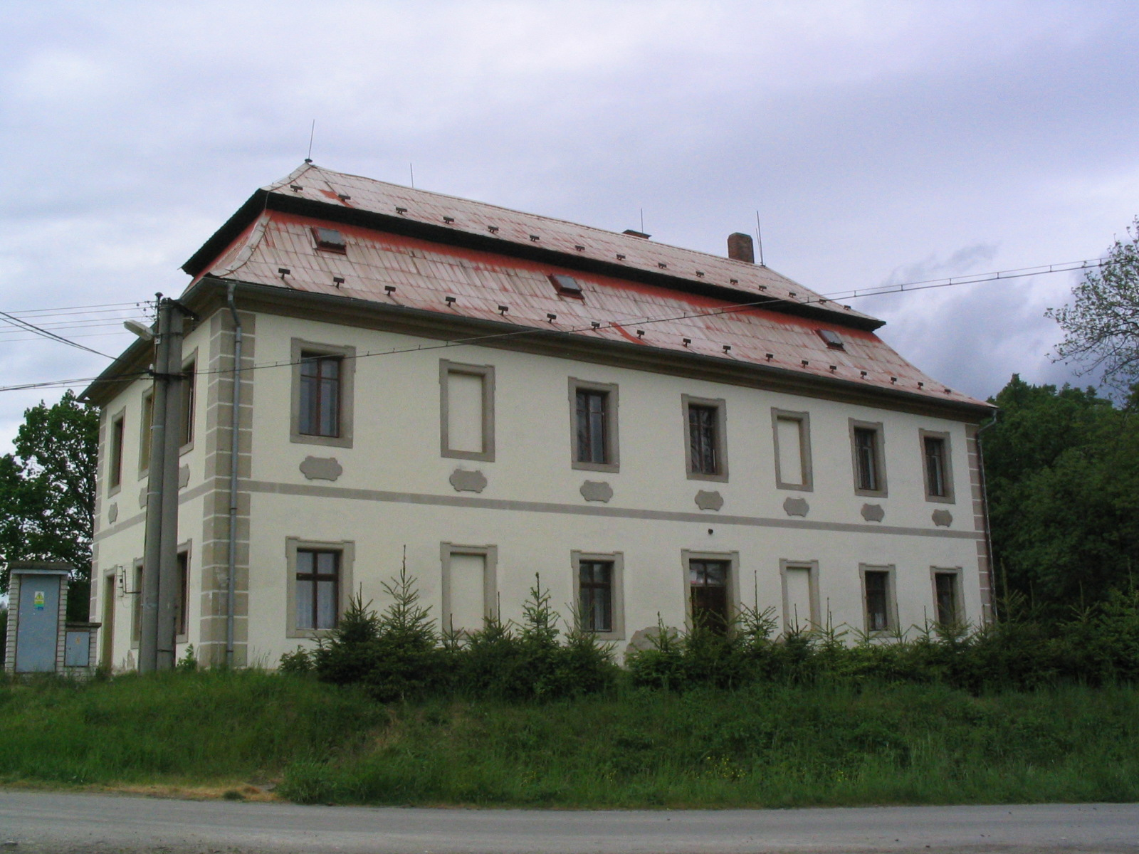 forestry house in Maníkovice, Czech Republic. late baroque, built in 1711 by Nicolas Raimondi.